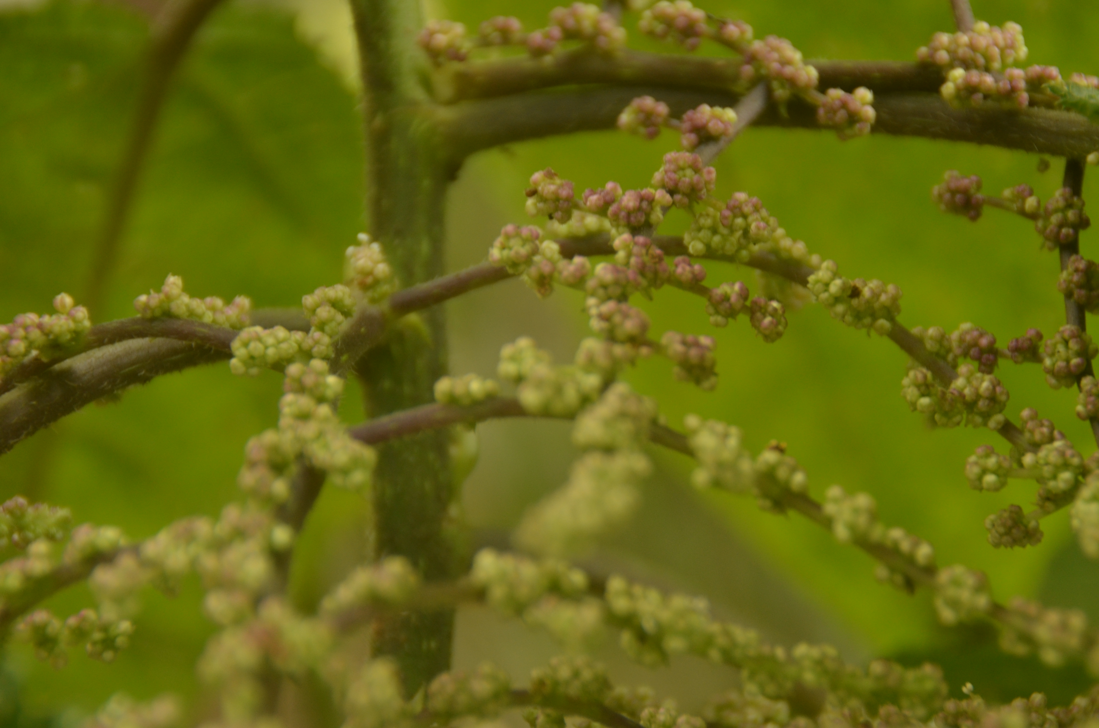 Gambar ini menunjukkan bunga Daun Gatal (Laportea decumana) yang diambil dari Biak Barat tahun 2018